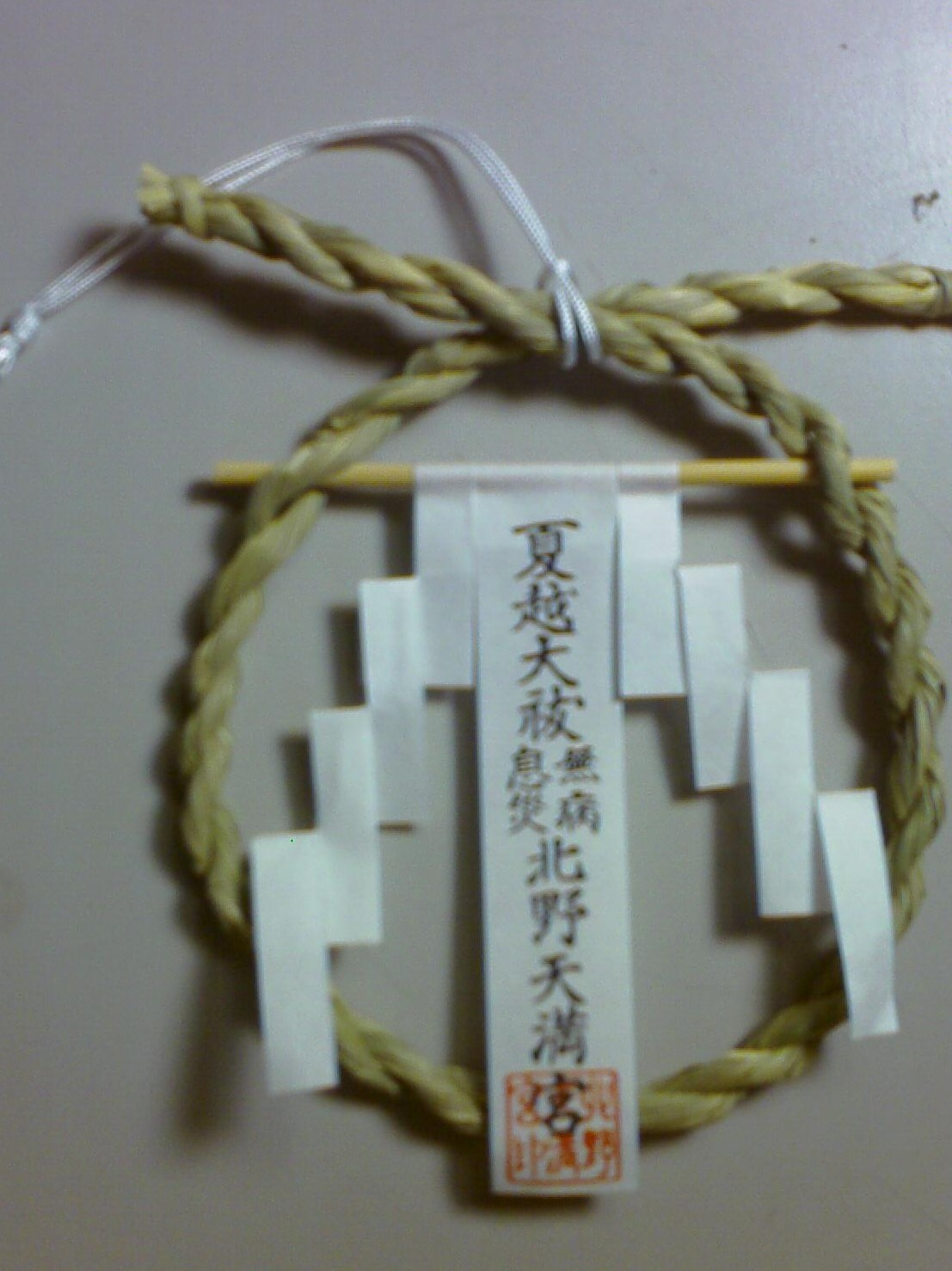 Omamori (Japanese Amulet)